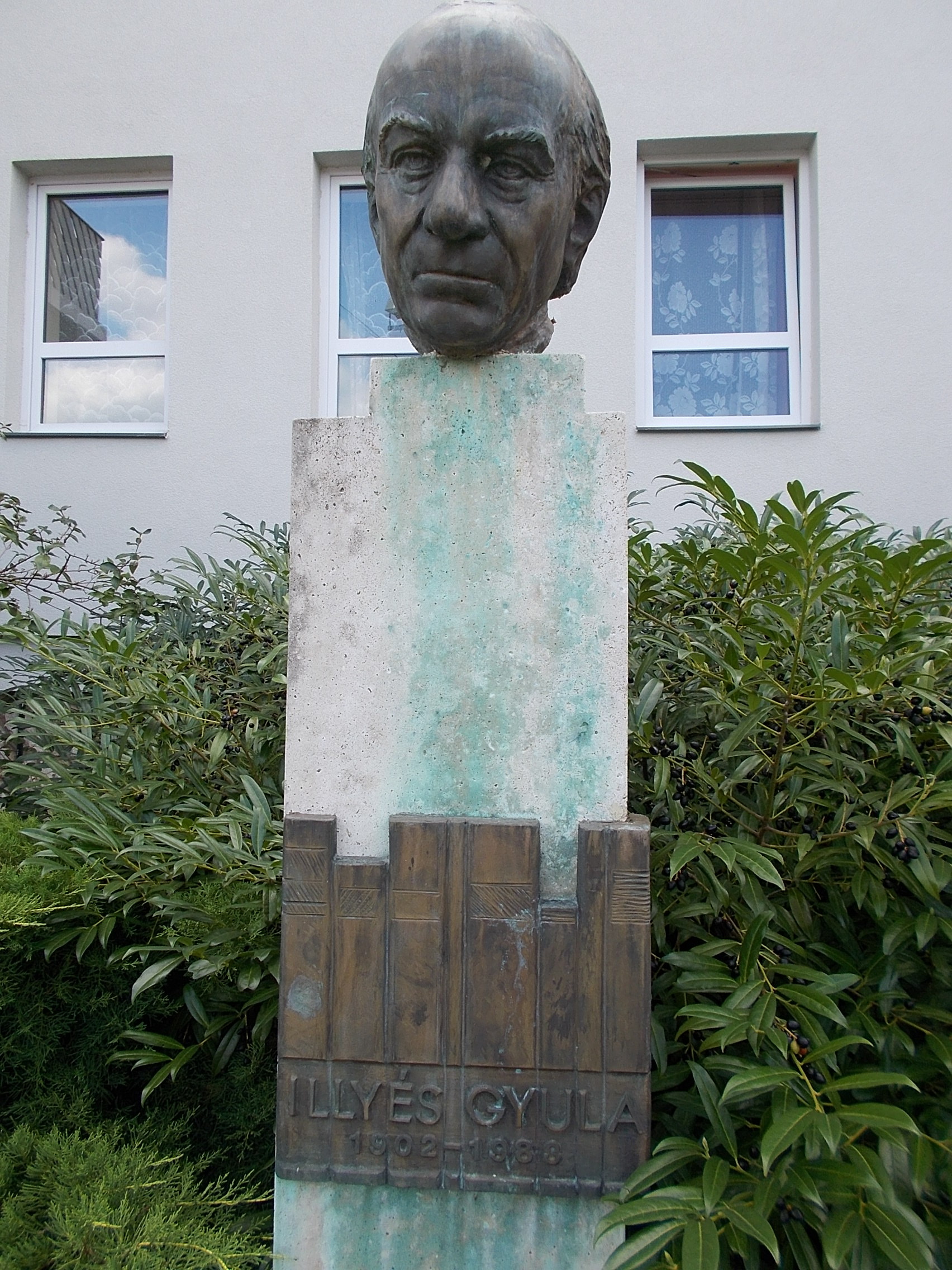 Head of Gyula Illyés by István Marosits, (1991) close to Illyés Gyula Elementary School. - Hévíz, Zala County, Hungary.